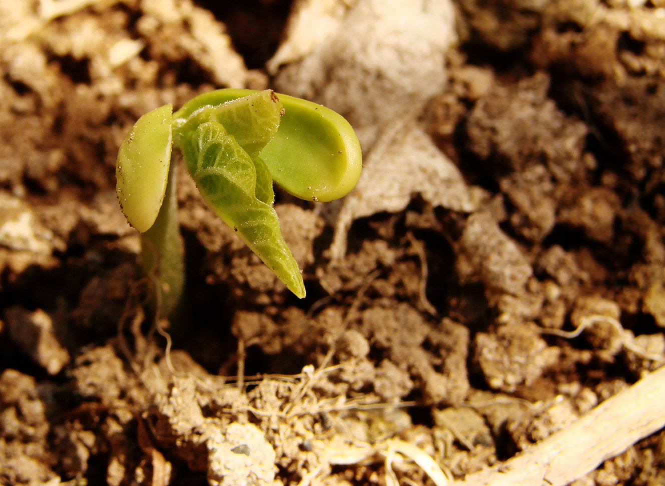 Seedling